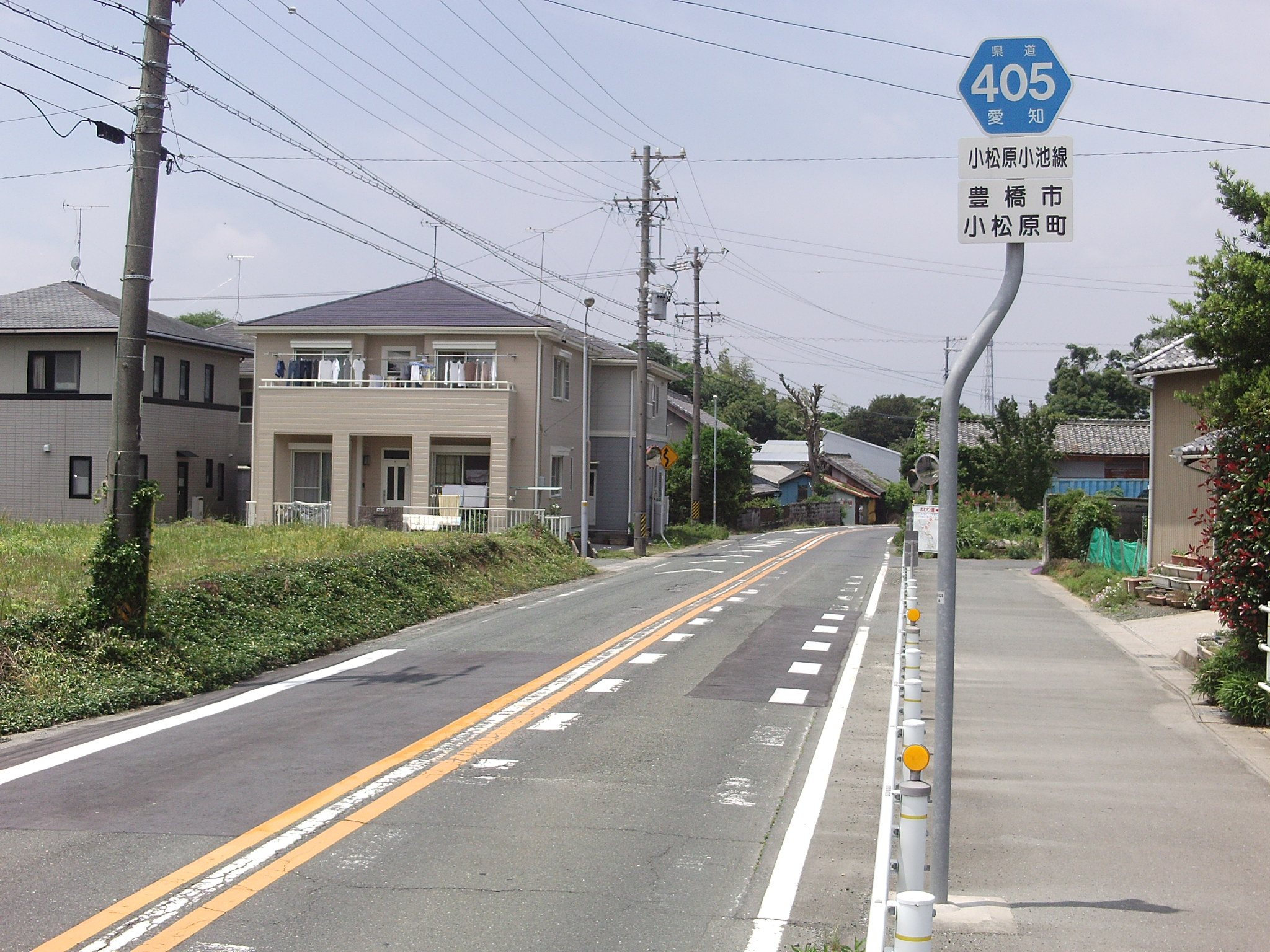 Aichi prefectural road No.405 in Komatsubaracho, Toyohashi, Aichi.